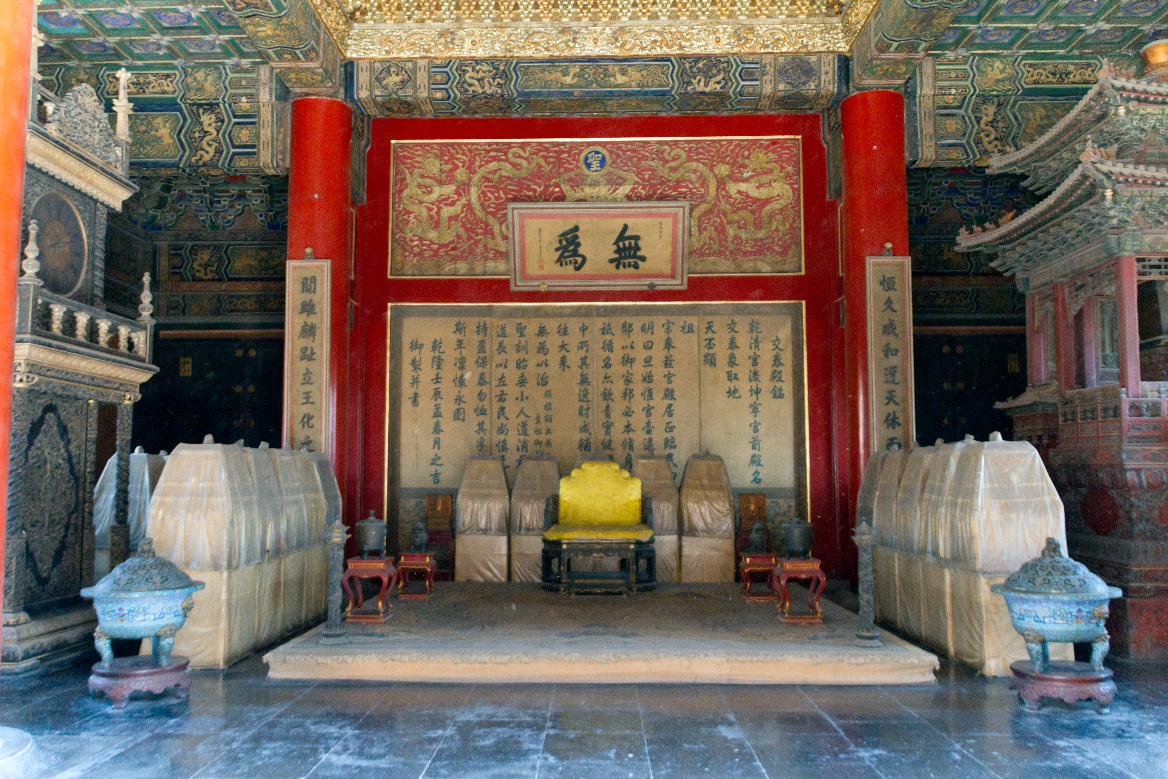 Hall of Union and Peace interior